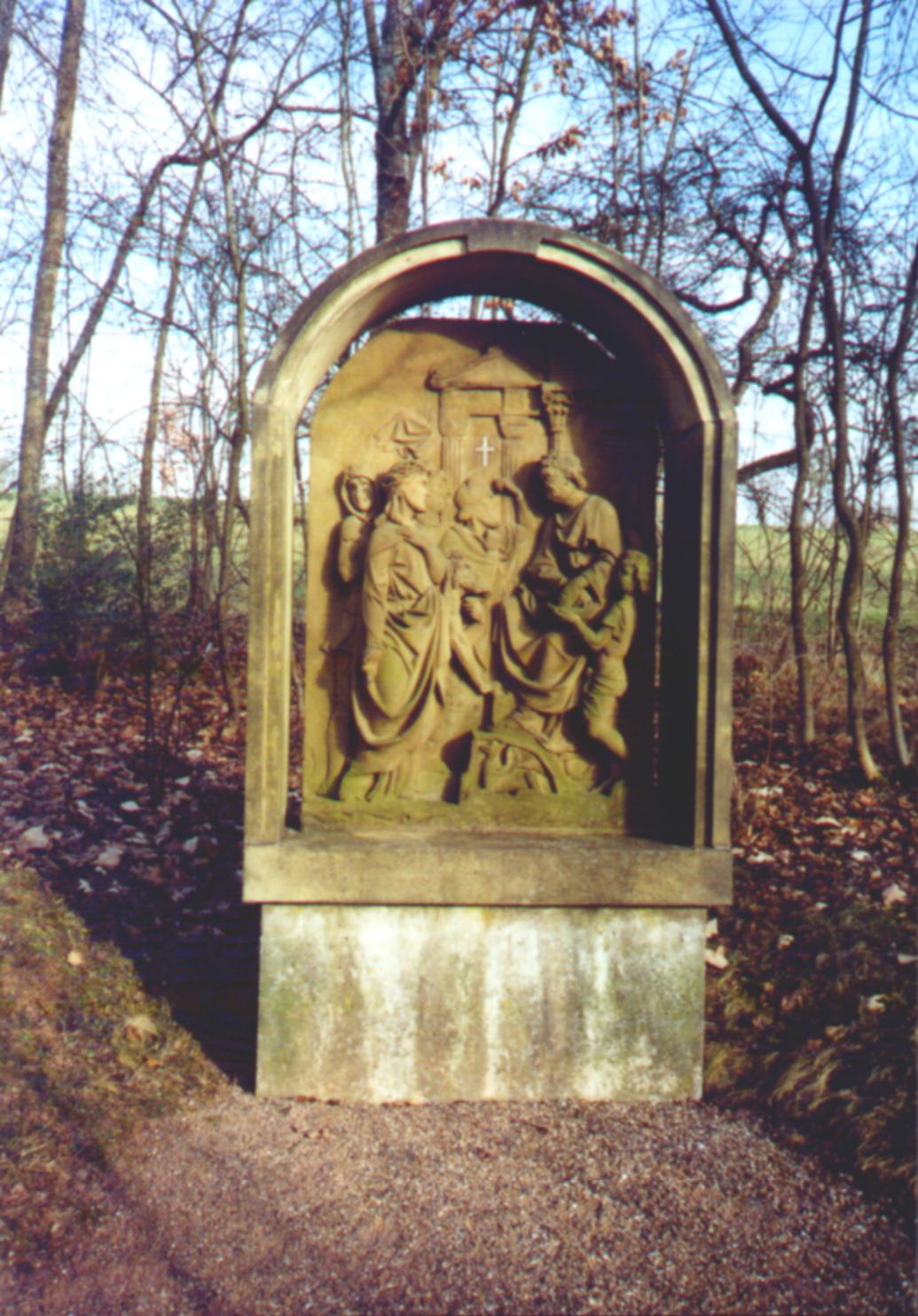 1st Station of the Way of the Cross in Poppenroth (Bavaria, Germany)